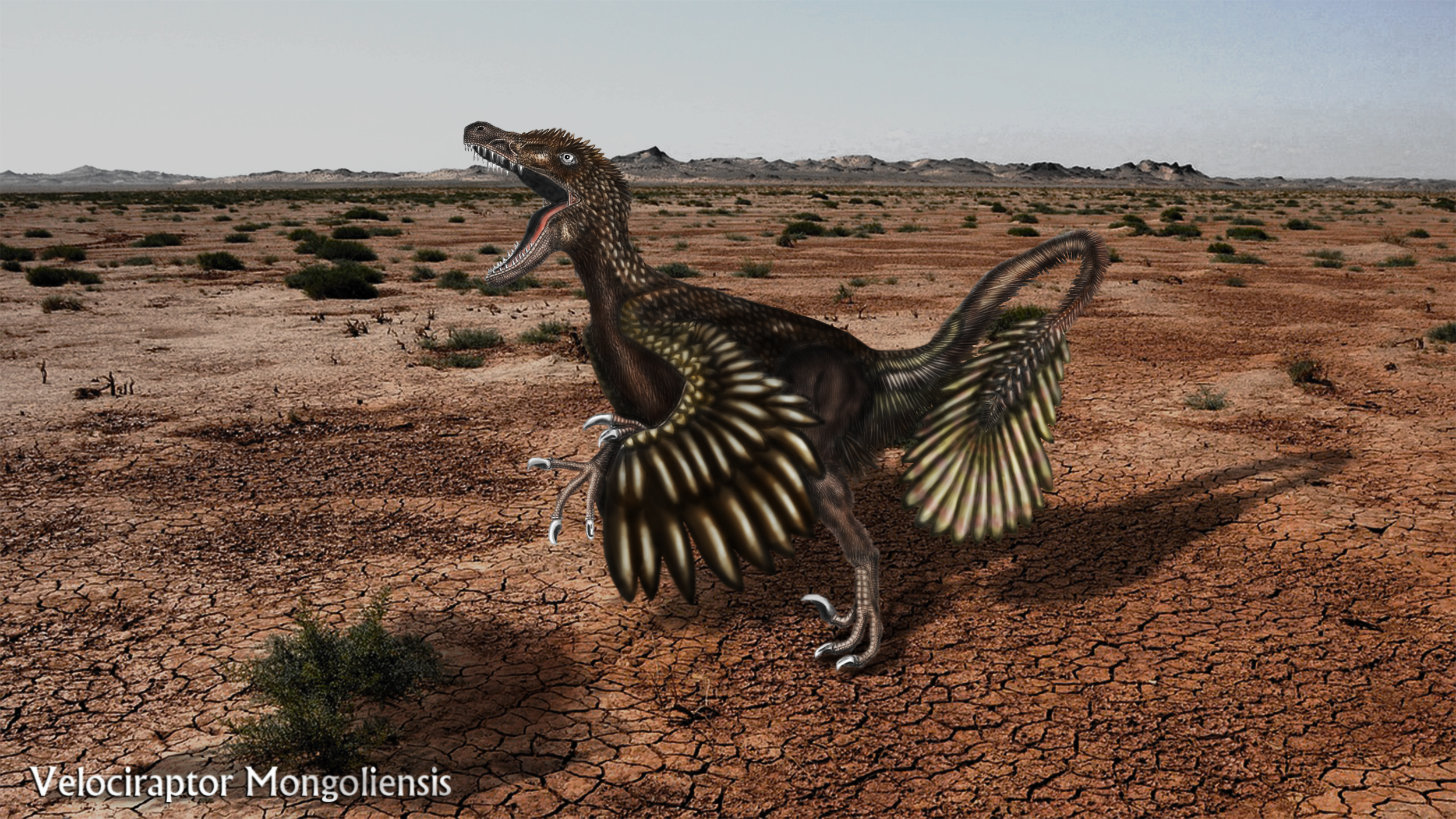 The image represents an original painting of the genus Velociraptor made in Photoshop CS6, and for biological accuracy it`s made after a reconstructed complete skeleton.The depiction of this animal includes long wing and tail feathers and more diverse colored patterns on the couverture feathers.The aim is to represent a more realistic vision of the famous Velociraptor in contrast with the mainstream depictions.